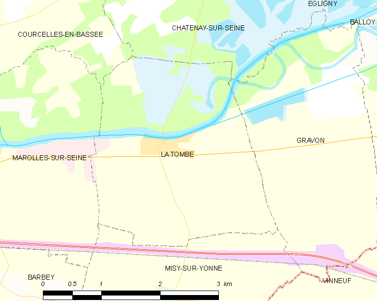 Map of French municipality La Tombe